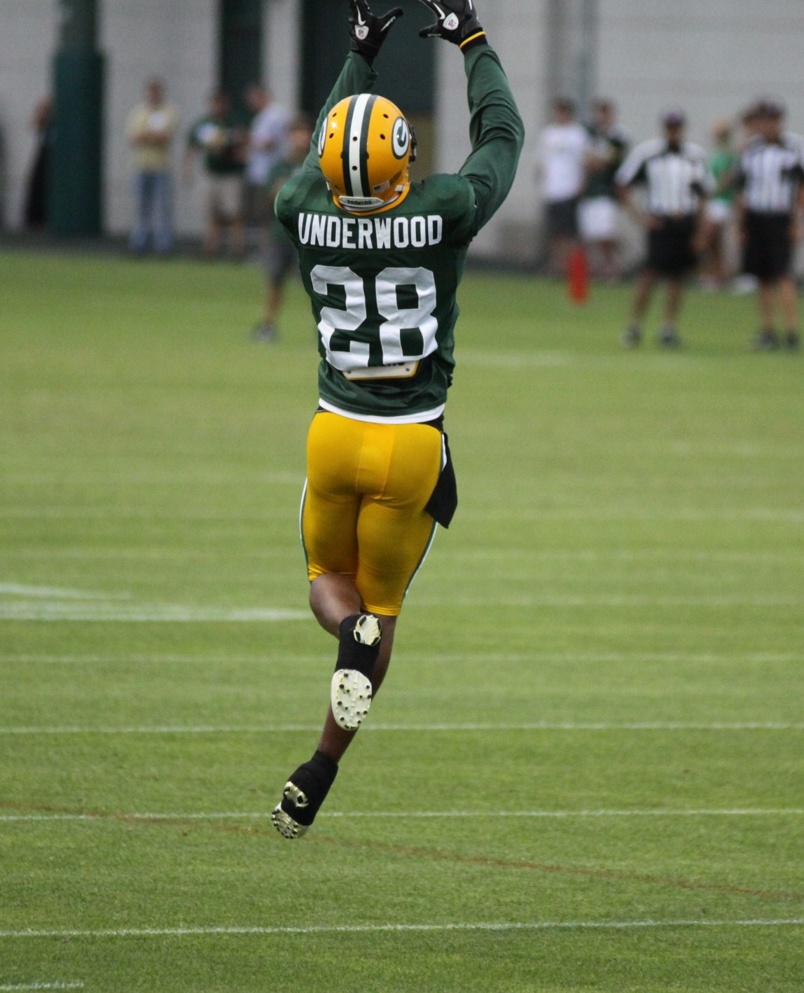 Green Bay Packers cornerback Brandon Underwood during pre-season training camp, Green Bay Wisconisn, August 5, 2011